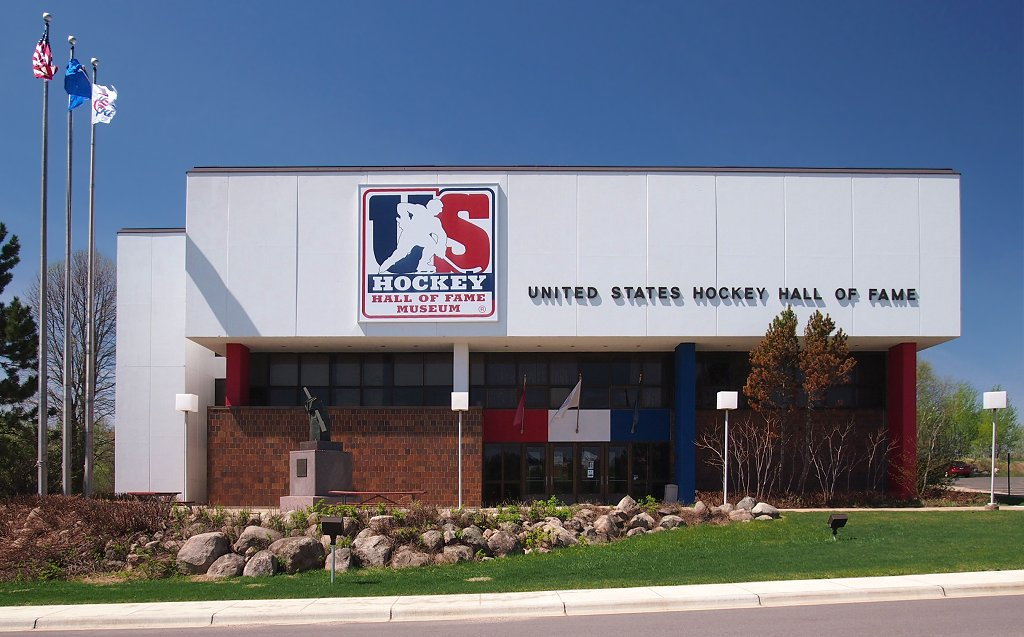 United States Hockey Hall of Fame, 801 Hat Trick Avenue, Eveleth, Minnesota, USA. Viewed from the east-northeast.